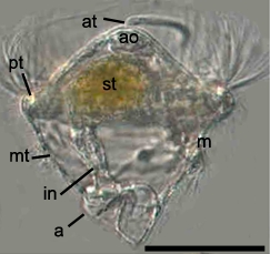 microscopic image of trochophore of Pomatoceros lamarckii. Scale bar is 50 μm.